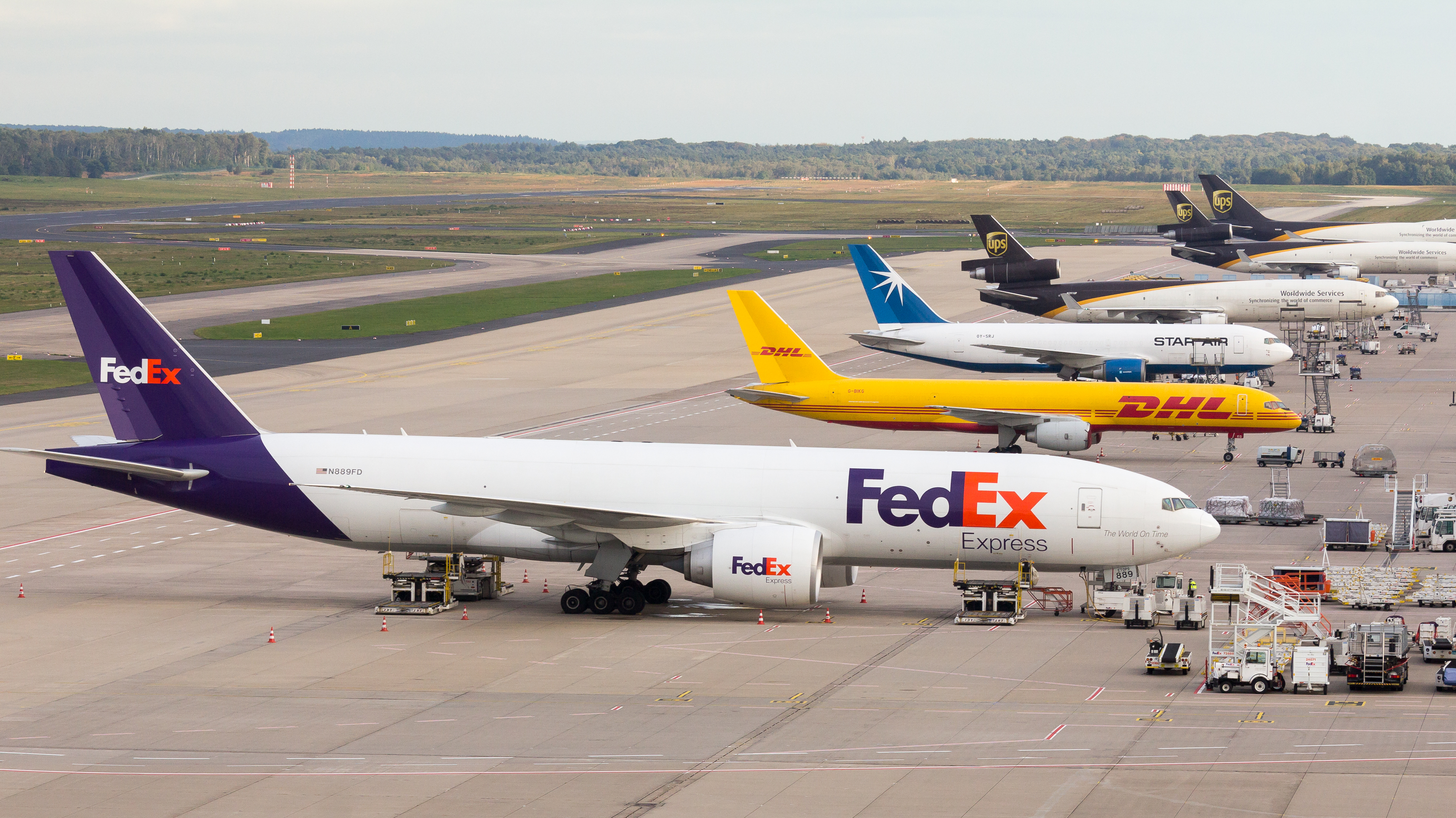 FedEx - Boeing 777-FS2 - N889FD - Cologne Bonn Airport. In the background: DHL (G-BIKG), Star Air (OY-SRJ), UPS (N291UP), UPS (N284UP), UPS (N583UP)